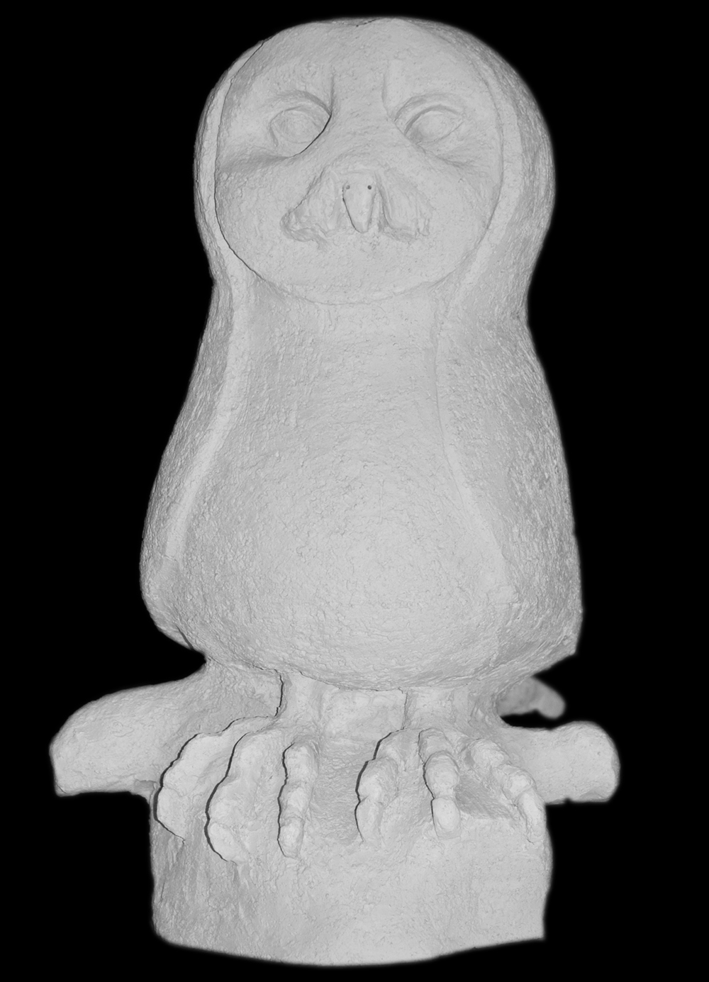 Vestische Literatur Eule - Literaturpreis Recklinghausen